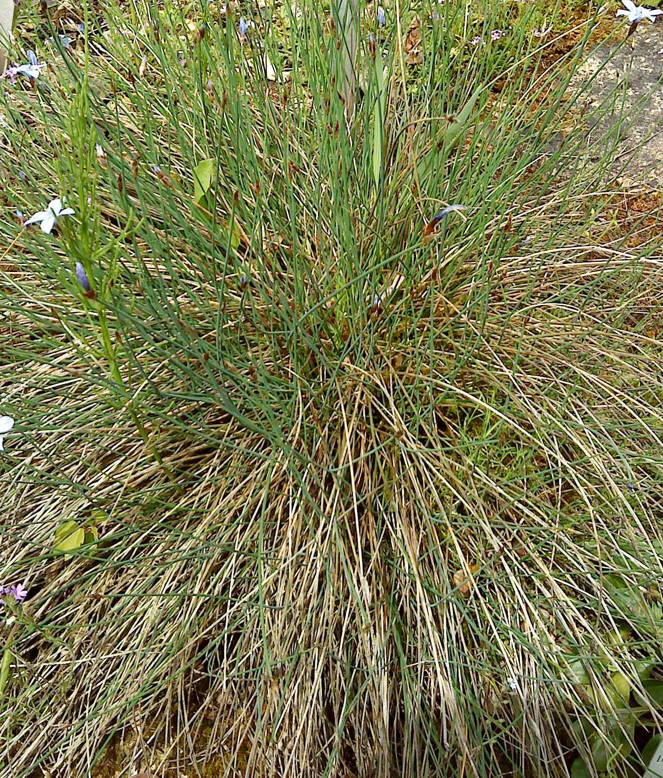 Aphyllanthes monspeliensis